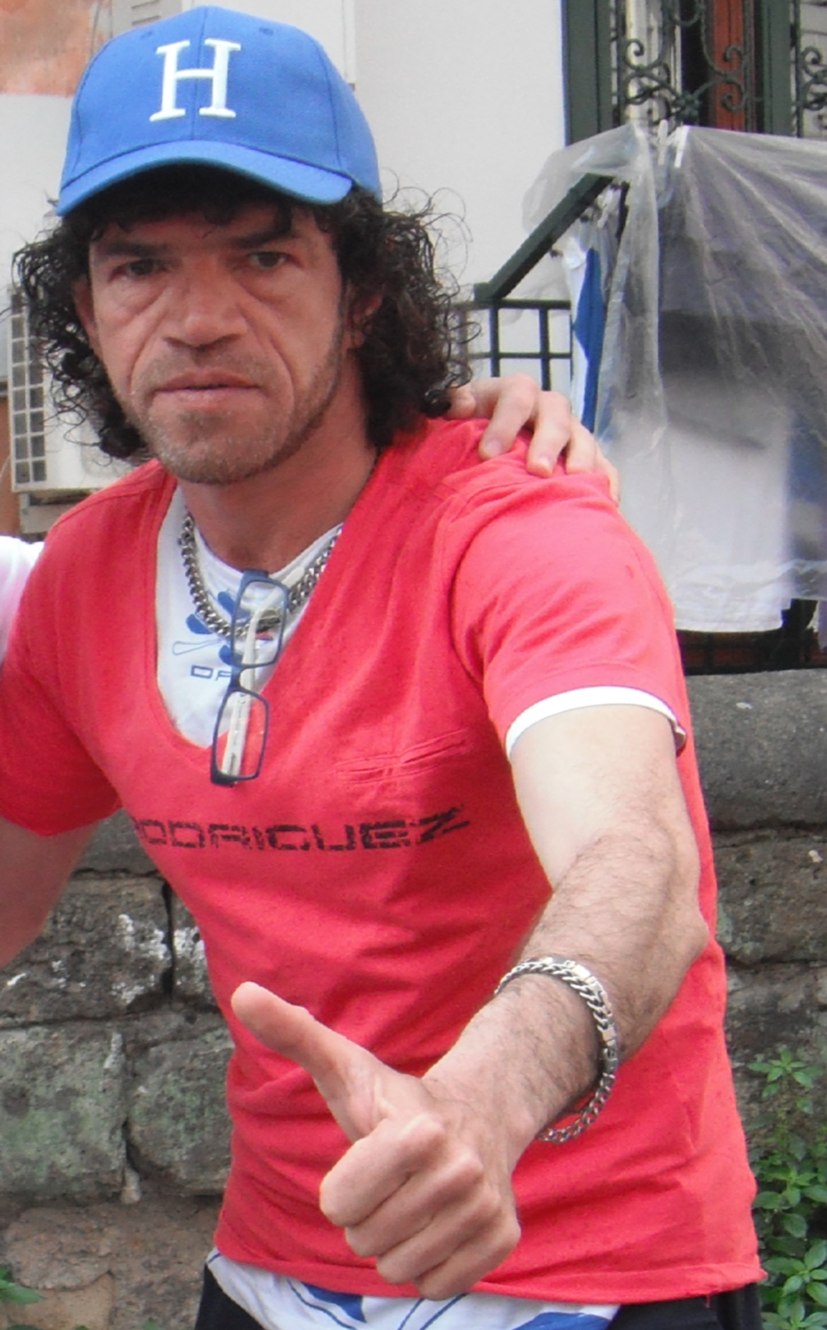 Francesco Longo